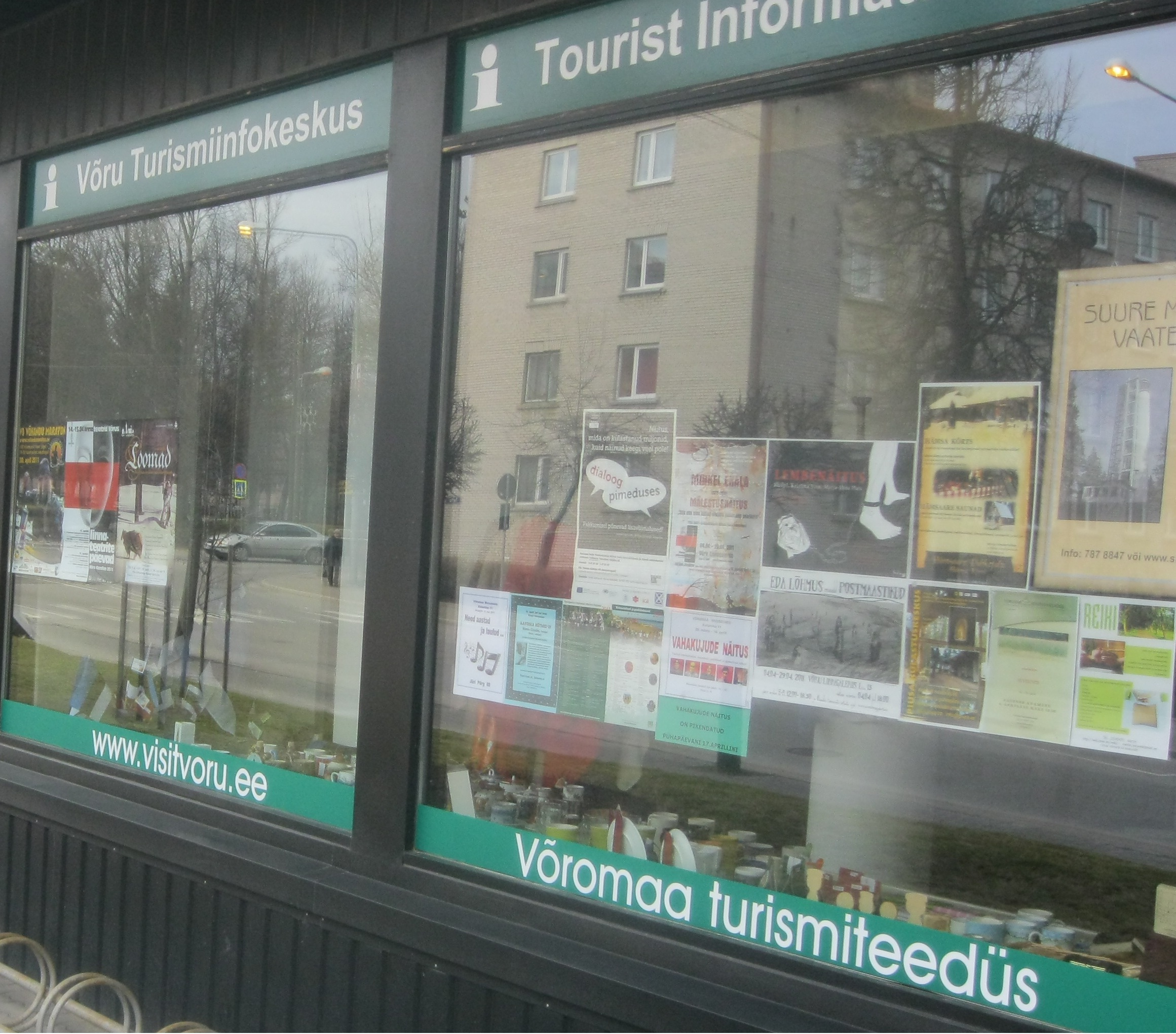 Tringual (Estonian-English-Võro) sign of a tourist information center in Võru Võro: Kolmõkeeline (eesti-inglüse-võro) turismiteedüse silt Võro liinan